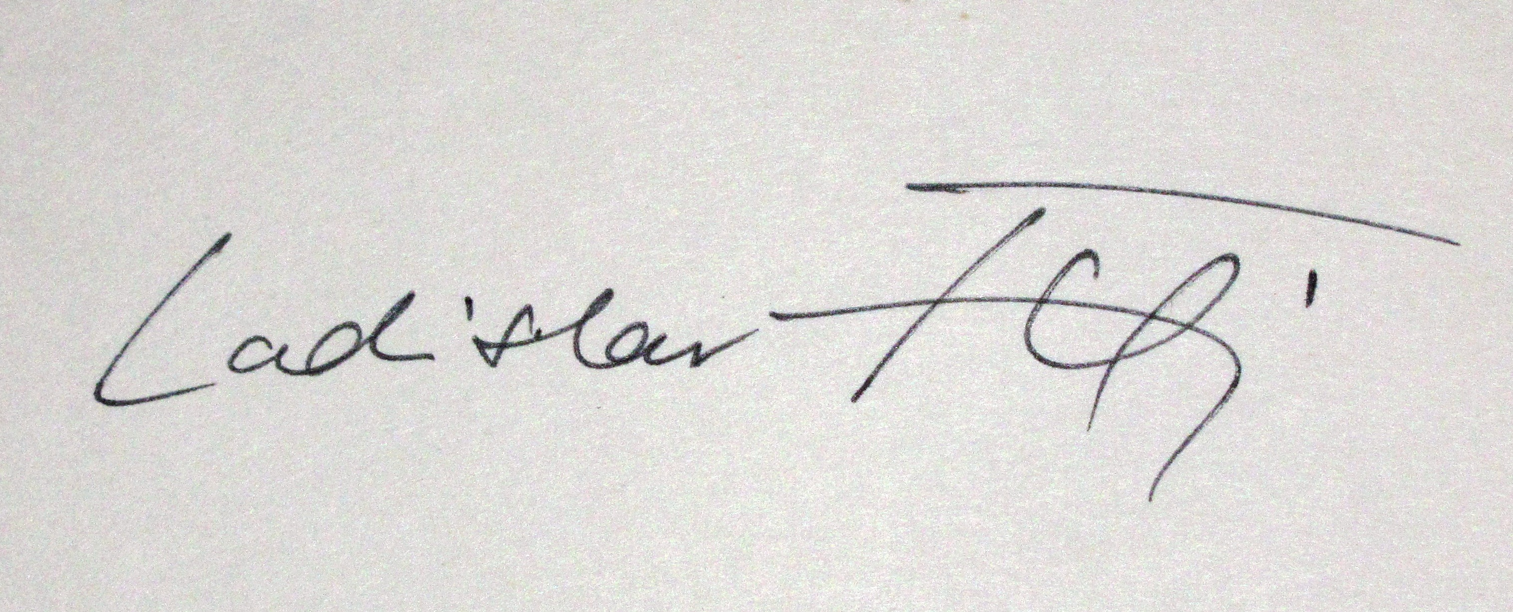 Autograph of Ladislav Frej, Czech actor (1984)